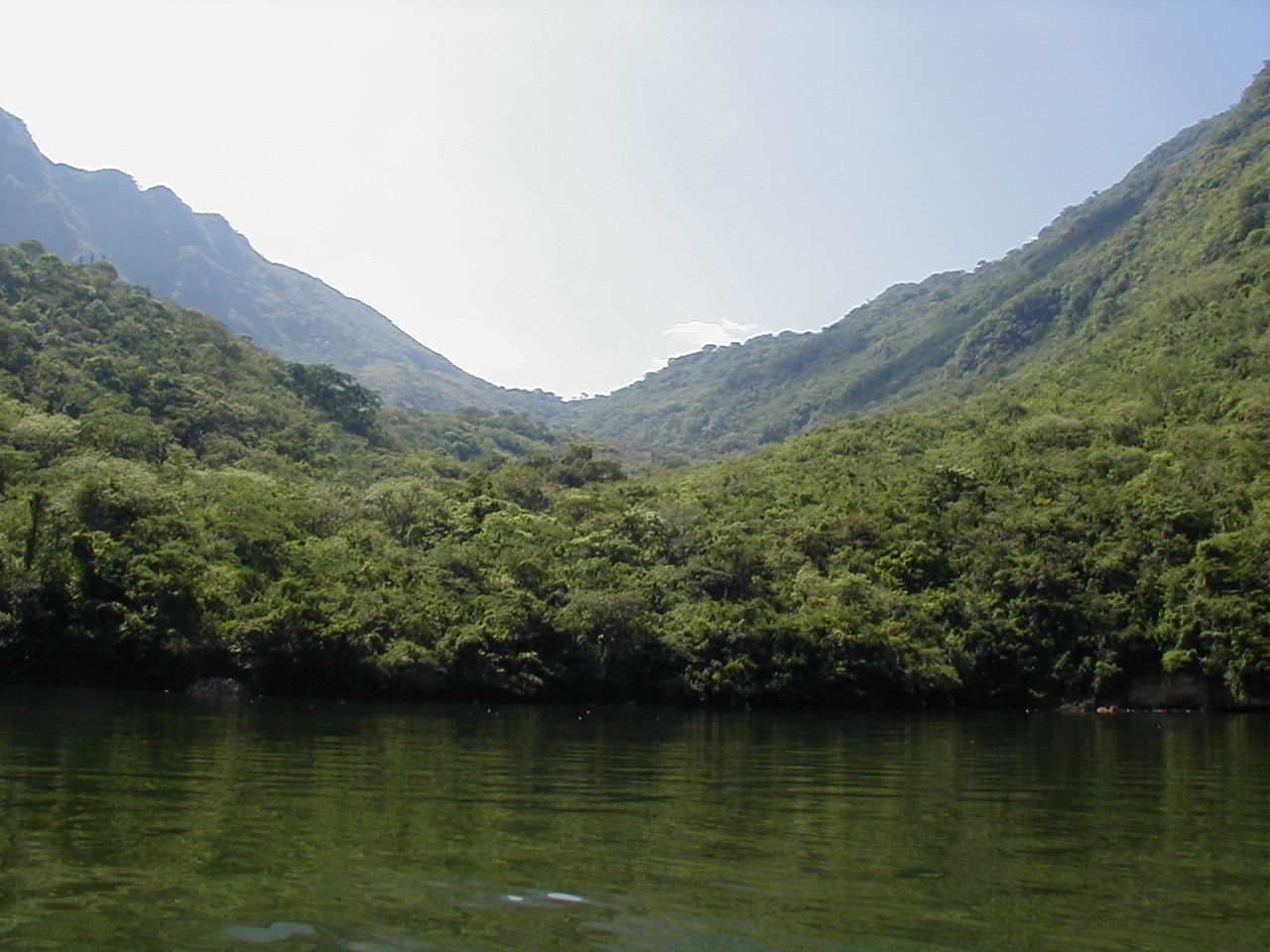 Sumidero Canyon Ecological Preserve on the Grijalva River in Sumidero Canyon . Located in the state of Chiapas, Southwestern Mexico.